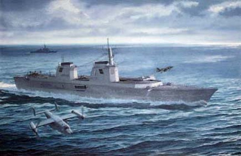 Another cruiser alternative studied in the late 1980s was variously entitled a Mission Essential Unit (MEU) or CG V/STOL. In a return to the thoughts of the independent operations cruiser-carriers of the 1930s and the Russian Kiev class, the ship was fitted with a hangar, elevators and a flight deck. The mission systems were Aegis, SQS-53 sonar, 12 SV-22 ASW aircraft and 200 VLS cells. The resulting ship had a waterline length of 700 feet, a waterline beam of 97 feet, and a displacement of about 25,000 tons.